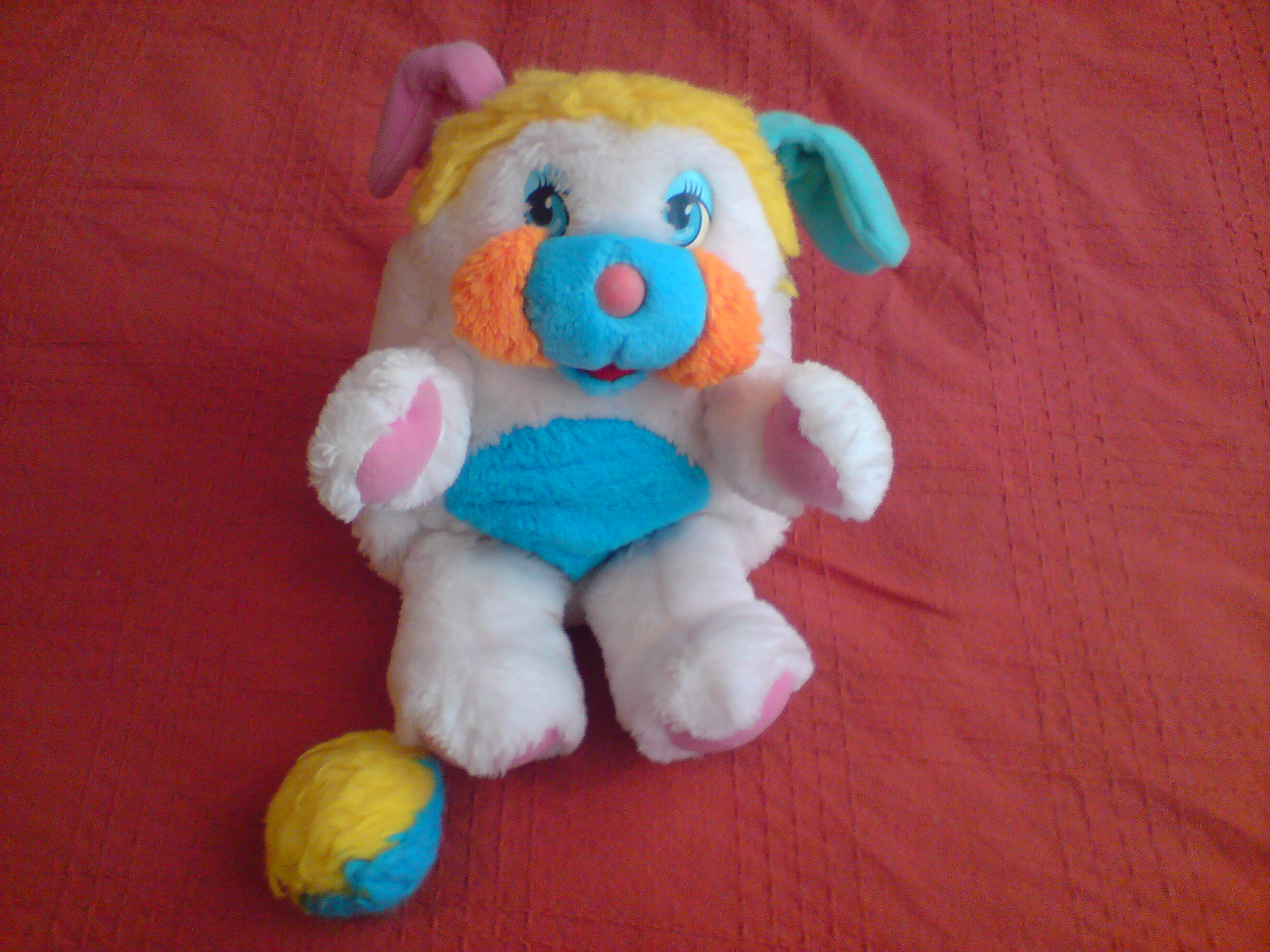 An 80's Soft Toy